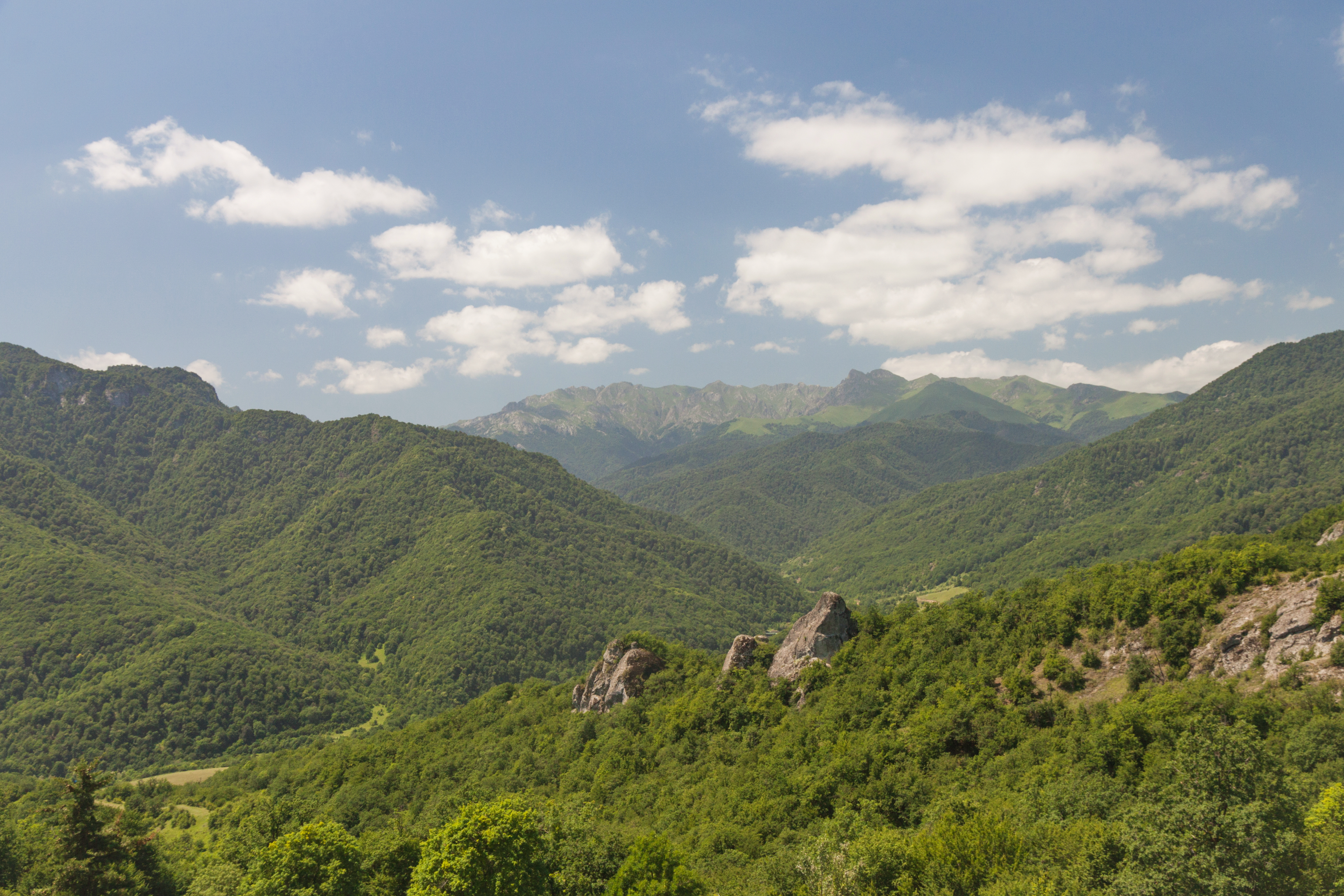 The views from the Gandzasar monastery. Nagorno-Karabakh.